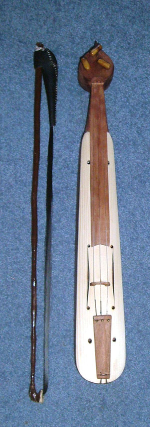 Pontian Lyra (Black Sea Fiddle, Kemenche) with a bow (doksar)